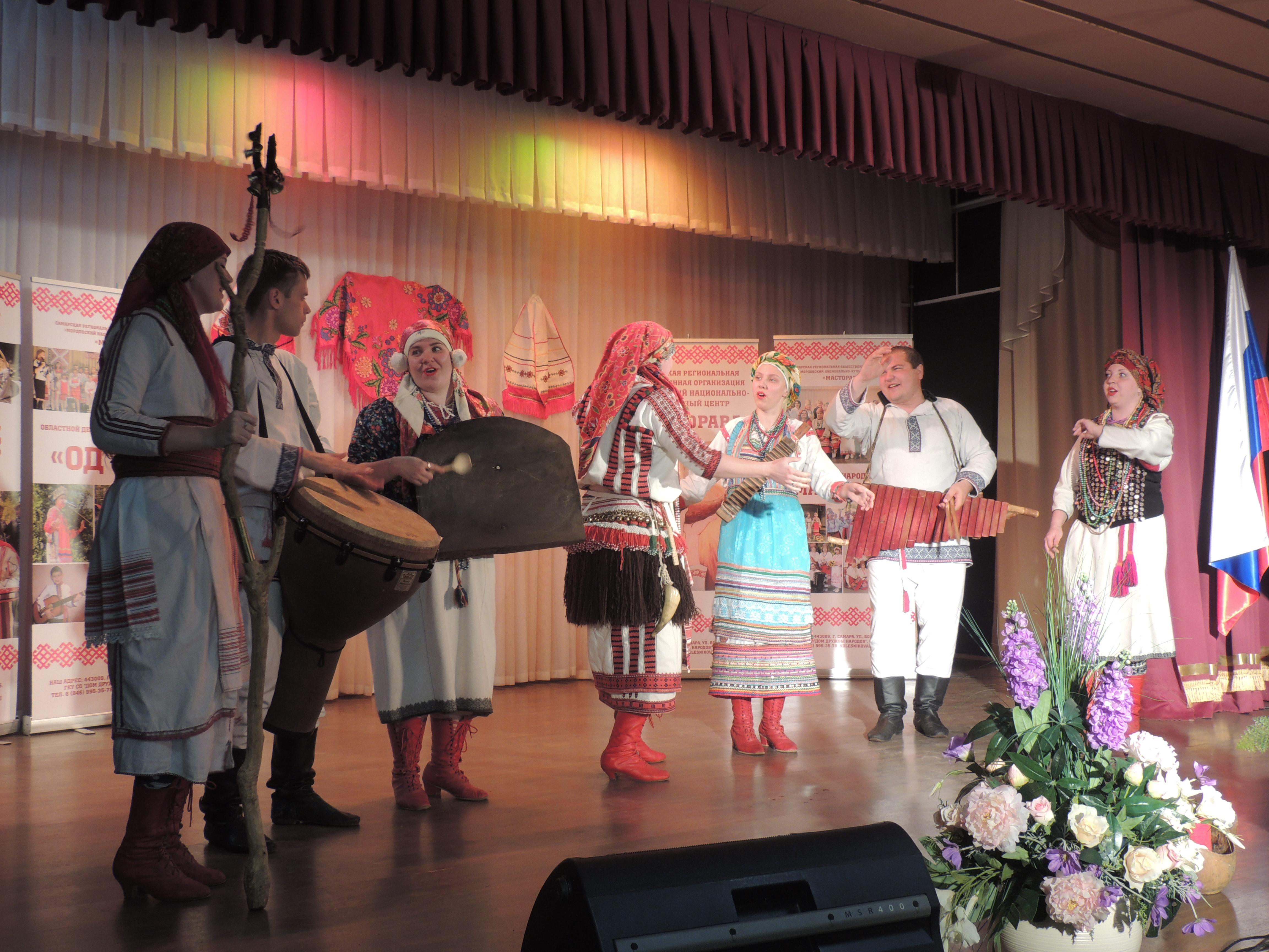 Folklore and ethnographic ensemble «Merema» (artistic director - Ekaterina Modina, Saransk). XIX Regional Festival «Spring of Mastorava» (erz. «Mastoravanj tundo»). «Friendship House of Peoples», Samara. May 21, 2017.